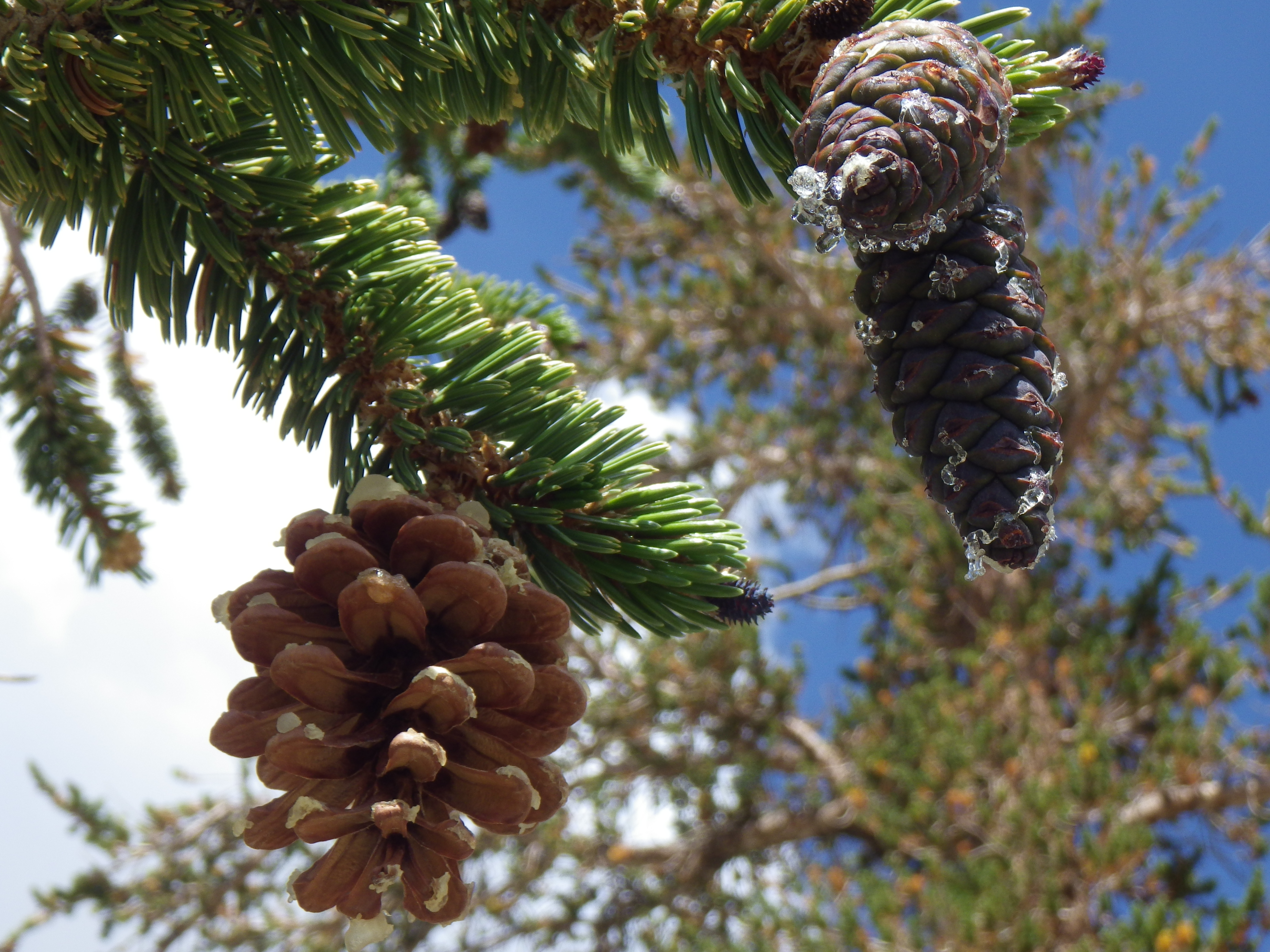 Sierra Foxtail Pine Pinus balfouriana subsp. austrina, Woods Creek, Kings Canyon NP, California. Distinguished from the Bristlecone Pine Pinus longaeva by the broadly attenuate (not rounded) base of the cone, each scale of which has no terminal prickle or weak one to only 1 mm.